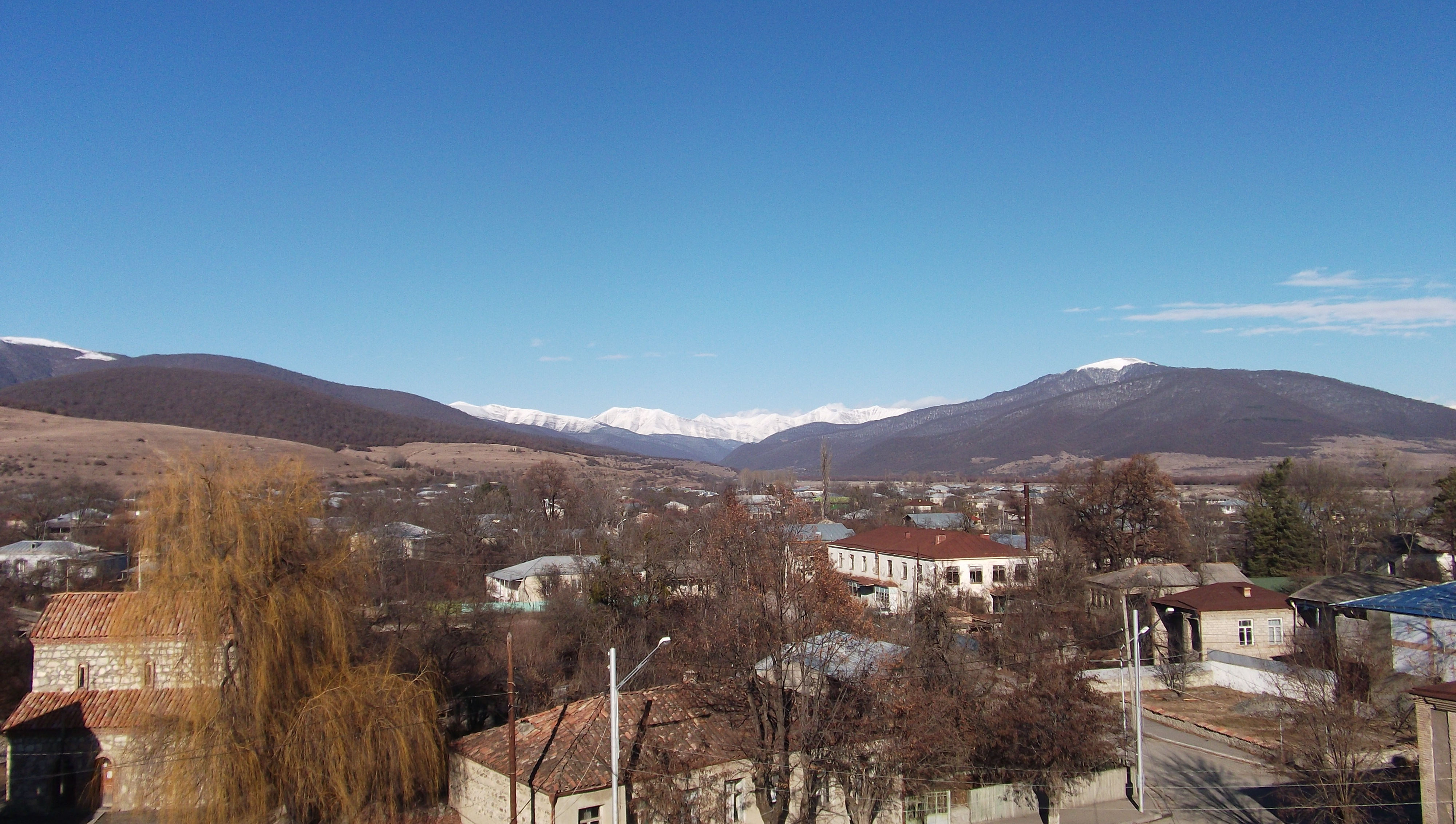 Tianeti